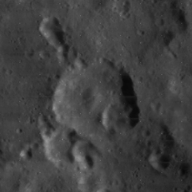 Borda, on the moon.